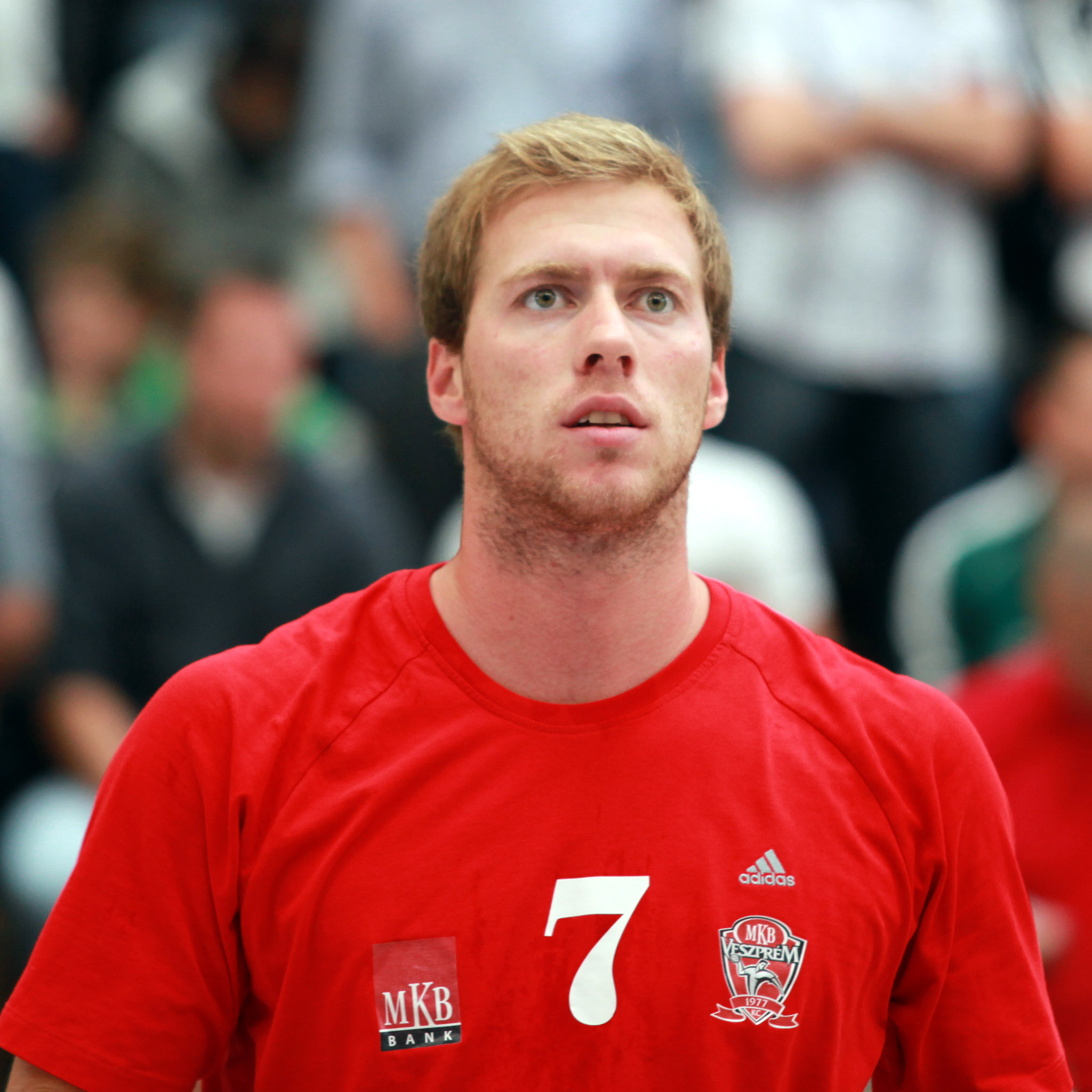 Gábor Császár, Hungarian handball player, on August 14th, 2010 in Ehingen (Germany), during the Schlecker Cup 2010.